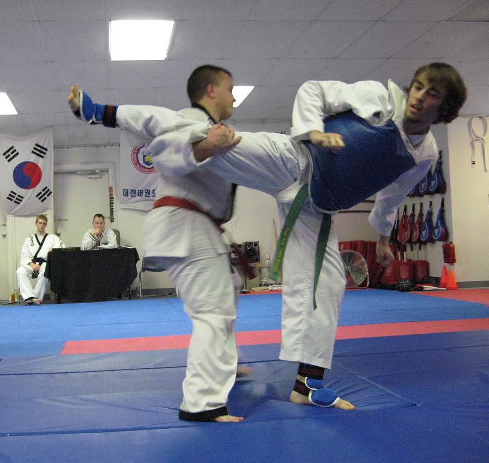 Two hapkido practicioners performing techniques in a black belt examination. (Originally uploaded to the English Wikipedia project as Hapkido2.jpg by Wikiman86.)